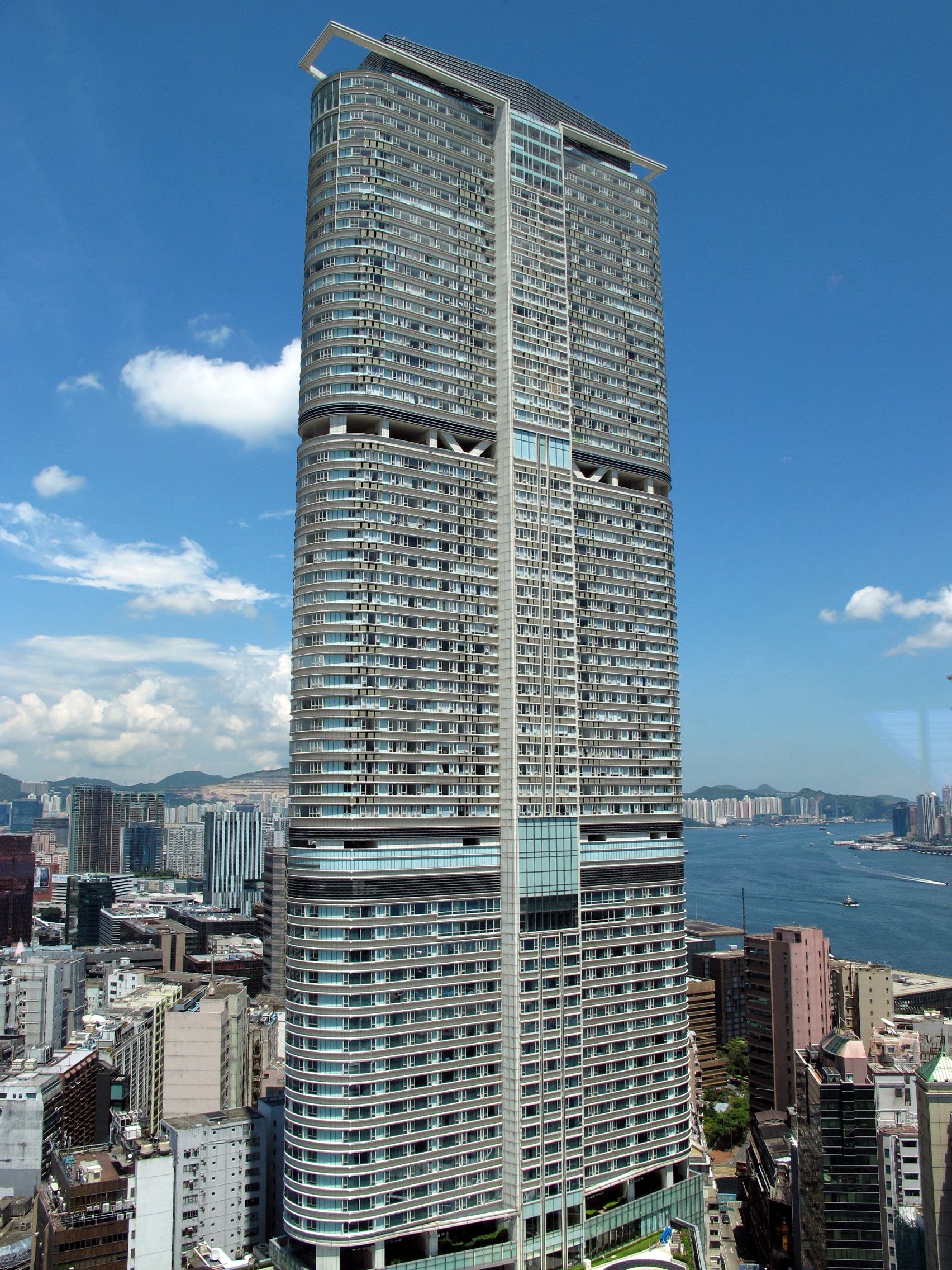 The Masterpiece 名鑄